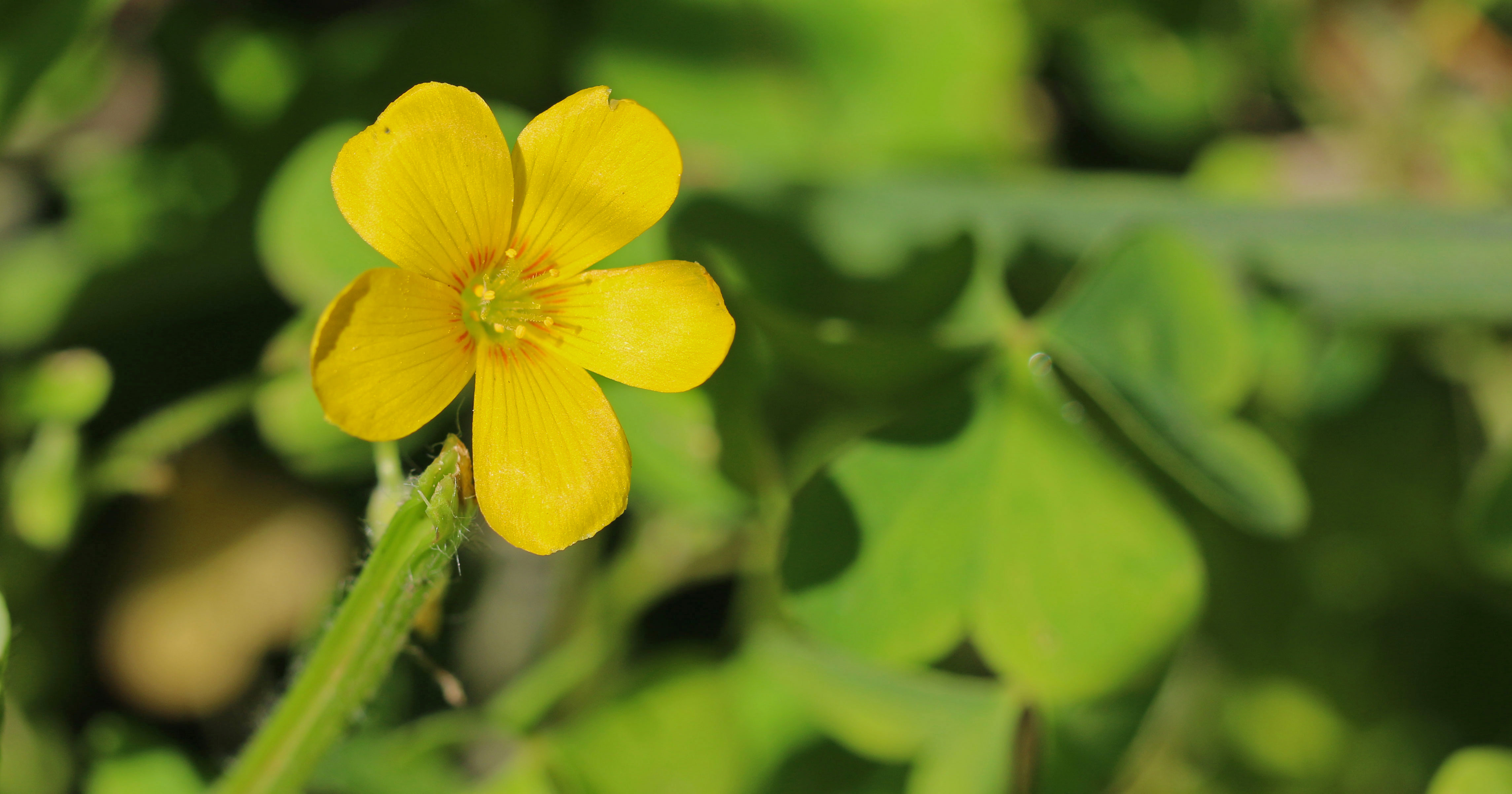 Yellow woodsorrel (Oxalis suksdorfii) You are free to use this image with the following photo credit: Peter Pearsall/U.S. Fish and Wildlife Service